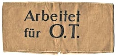 Armlet "Organisation Todt"